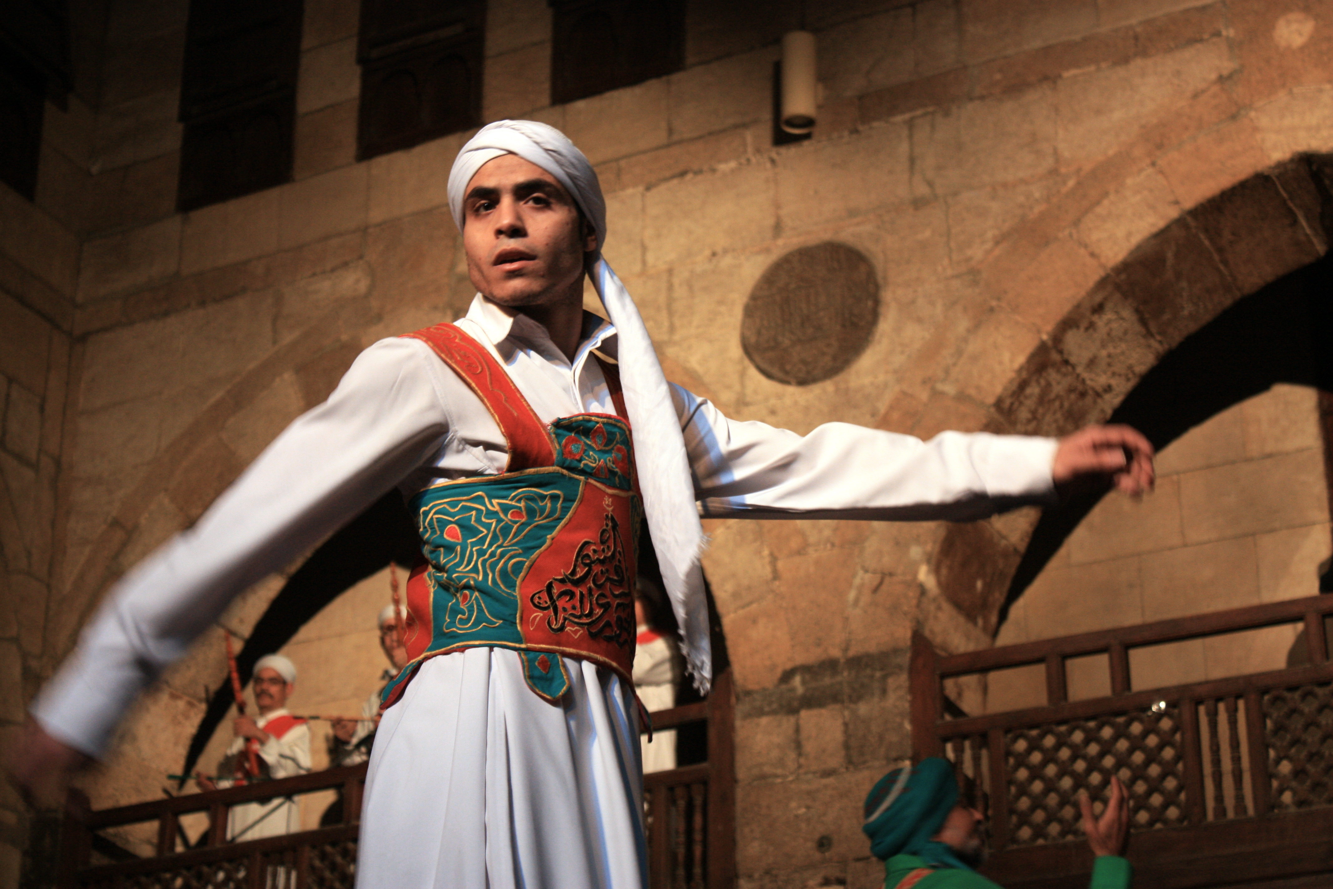 A Sufi Dancer in Cairo, Egypt